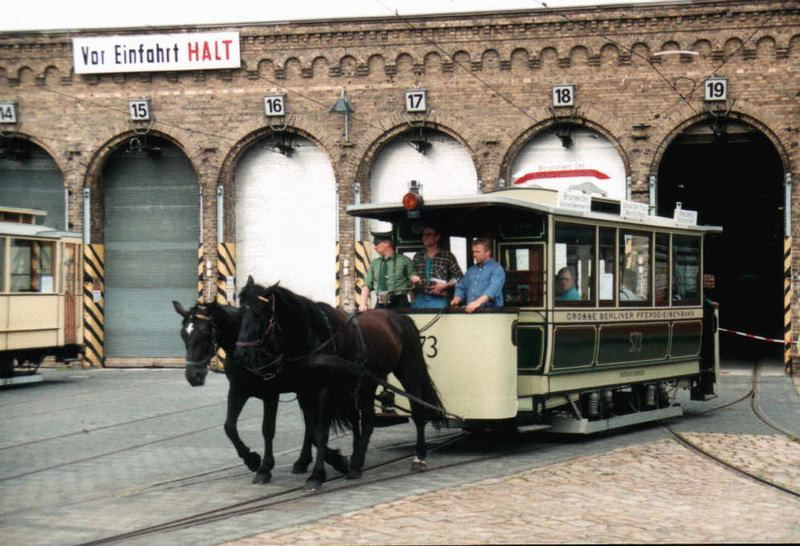 Berlin Horse Tram, manufactured by Herbrand, 1885.